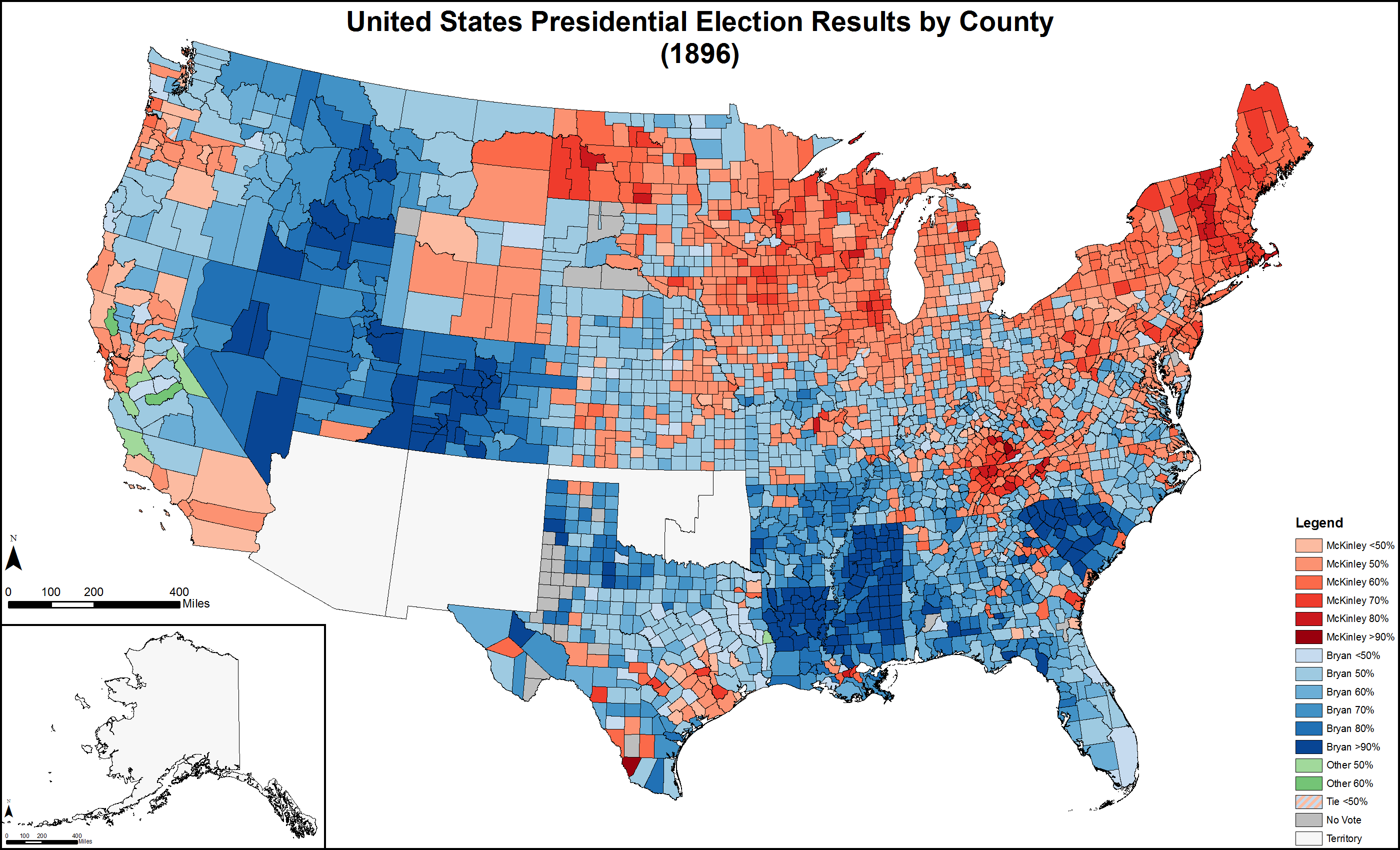 Presidential election results by county (1896). Colors based on Colorbrewer 2.0.